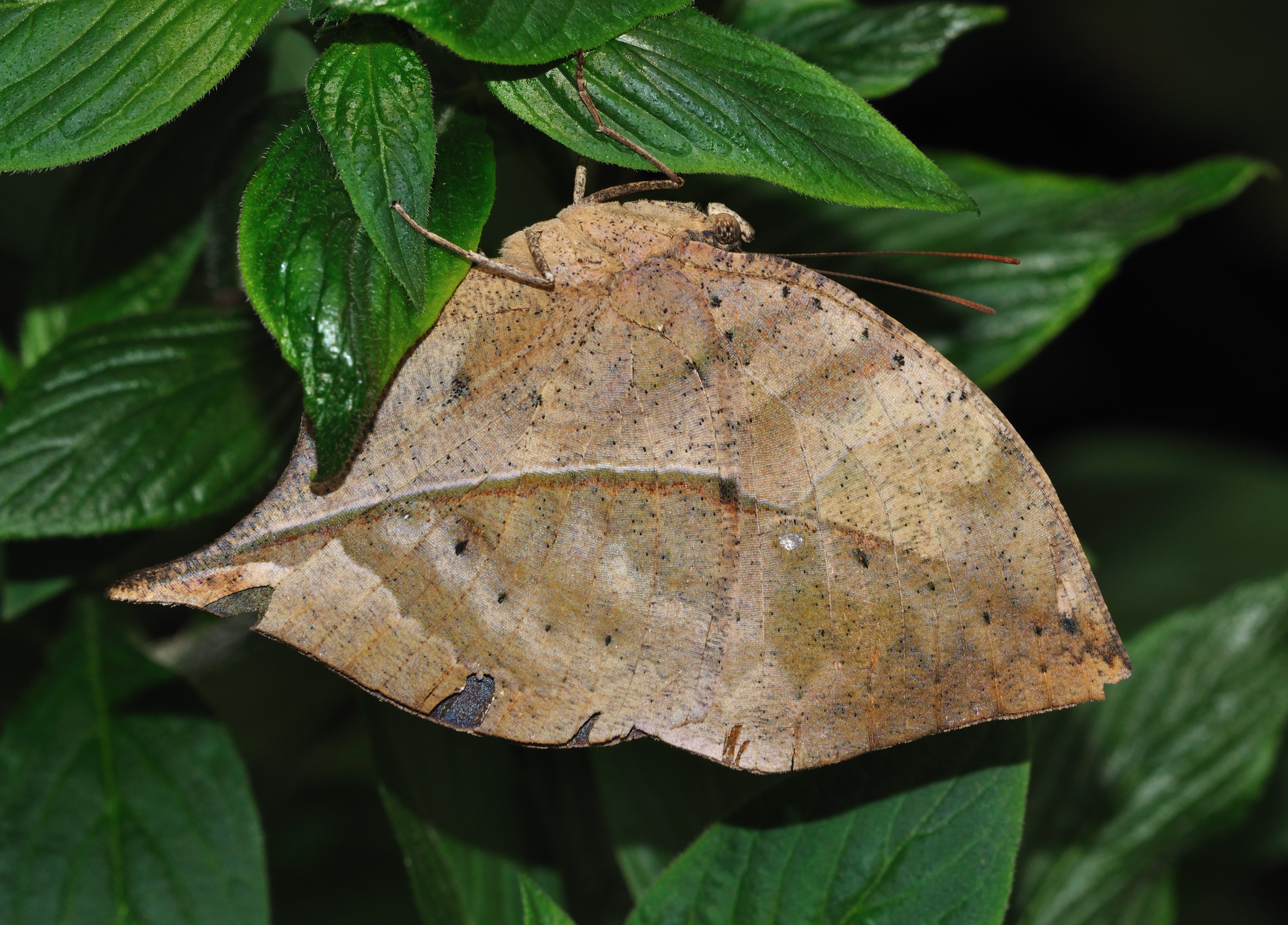 Dead Leaf (Kallima inachus) in the butterfly house of Maximilianpark Hamm, Germany.